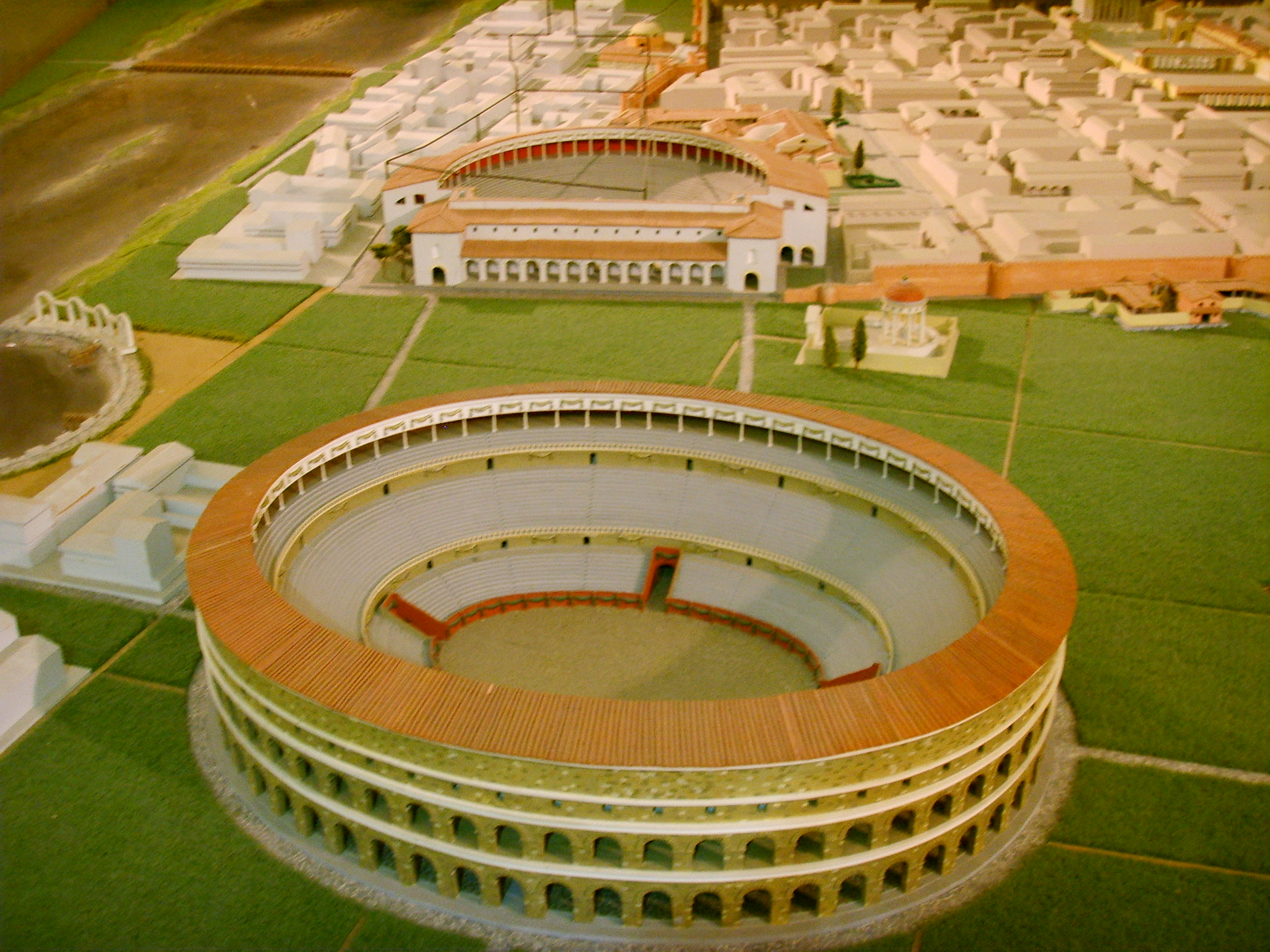 Museo Firenze com'era, archaeological room, florentia's reconstruction in Florence, italy